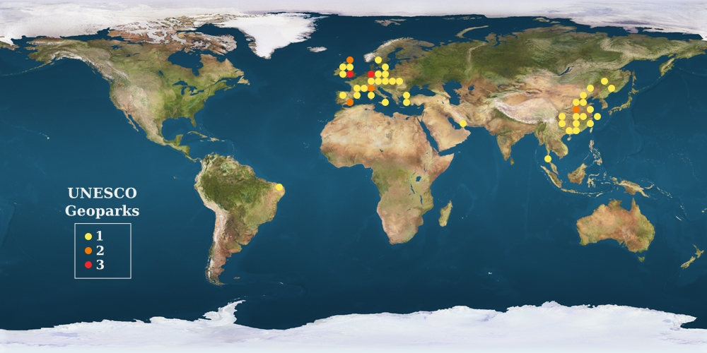 World locator map for Geoparks included in the UNESCO Global Geoparks Network—GGN. The maps shows all 52 GGN Geoparks in 17 countries in the network (as of March 2008). The dots are coloured yellow for one park, orange for two parks, and red for three parks. The Geoparks are, from west to east (left to right), and then from north to south (top to bottom): BR:Araripe UK:Marble Arch IE:Copper Coast PT:Naturtejo Meseta Meridional UK:Northwest Highlands; UK:Lochaber UK:North Pennines UK:Malvern Hills; UK:Fforest Fawr; UK:English Riviera ES:Cabo de Gata-Nijar; ES:Sierras Subbeticas ES:Sobrarbe ES:Maestrazgo FR:Luberon DE:Bergstraße-Odenwald; DE:Terra-Vita; DE:Vulkaneifel DE:Schwäbische Alb FR:GR Haute Provence; IT:Beigua IT:Sardinia Geominerario NO:Gea-Norvegica DE:Harz.Braunschweiger Land.Ostfalen AT:Kamptal DE:Mecklenburg Ice Age Park CZ:Bohemian Paradise AT:Eisenwurzen IT:Madonie HR:Papuk RO:Haţeg GR:Lesvos GR:Psiloritis IR:Qeshm MY:Langkawi CN:Xingwen CN:Shilin Stone Forest CN:Songshan CN:Wangwu-Daimei CN:Yuntaishan; CN:Funiushan CN:Zhangjiajie CN:Danxiashan CN:Leiqiong CN:Fangshan CN:Taishan CN:Lushan CN:Hexigten CN:Huangshan CN:Taining CN:Yandangshan CN:Wudalianshi CN:Jingpohu